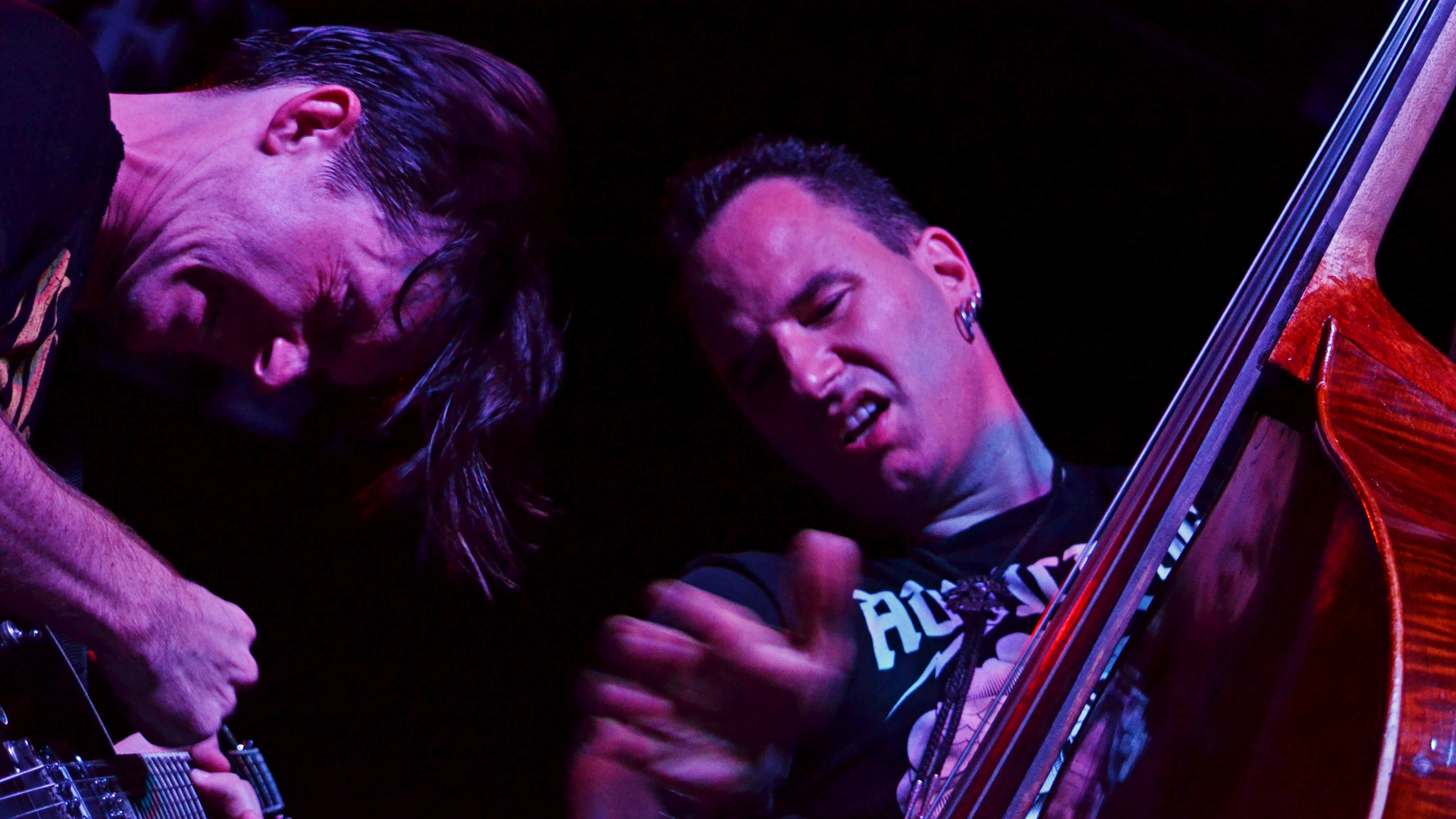 Drake Bell and Djordje Stijepovic playing Live at Big Shots in Valparaiso, Indiana, 08/27/2016